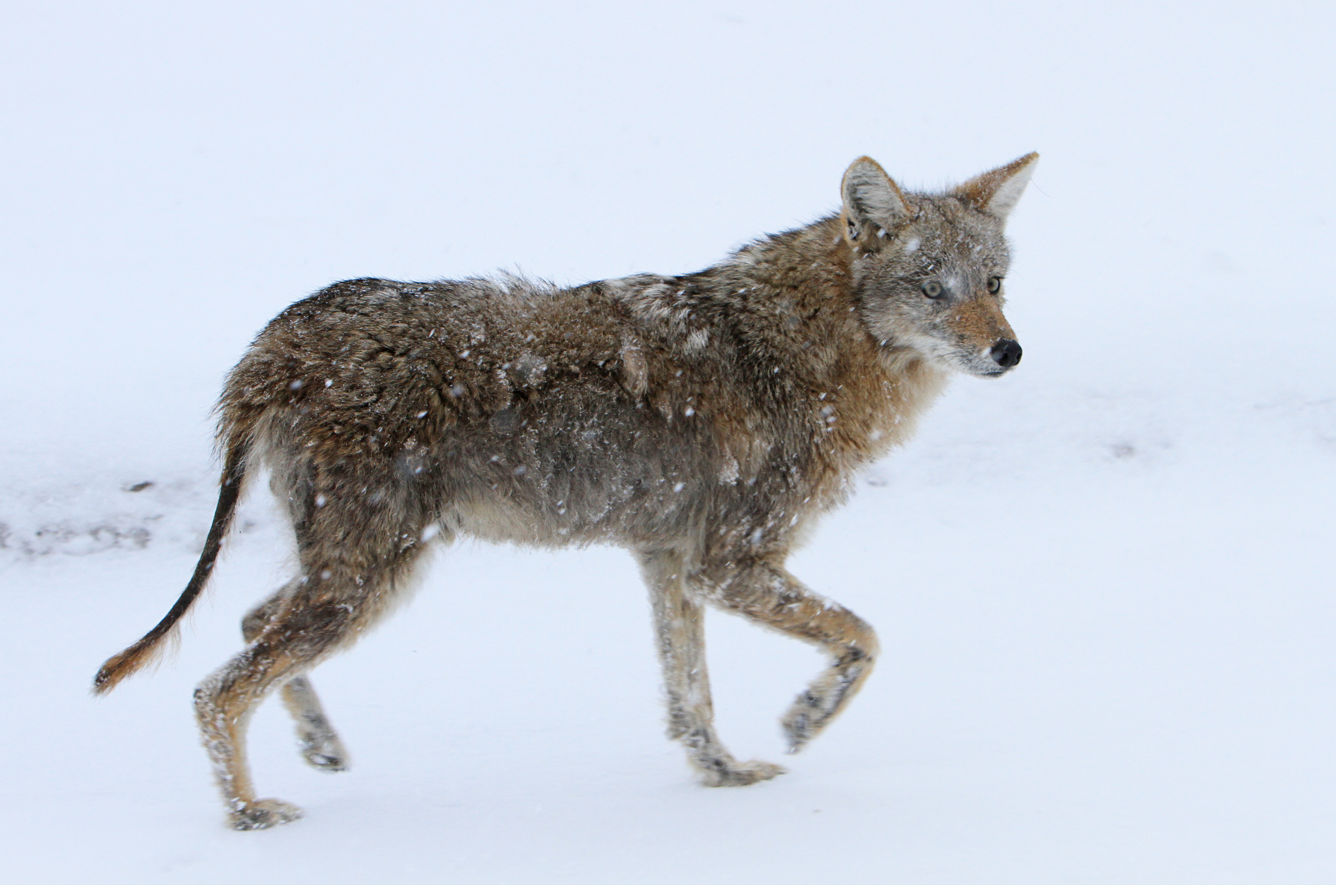 Coyote with mange near Floating Island Lake; Jim Peaco; January 2014; Catalog #314d; Original #IMG_0060